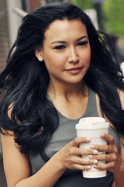 Naya Rivera in NYC photographed by Jiyang Chen